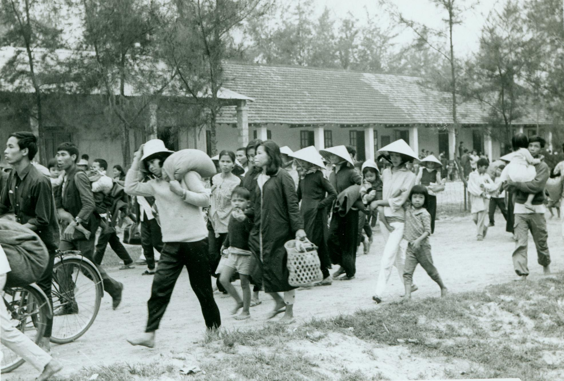 "Refugees: Vietnamese civilians flee Viet Cong terrorists during heavy street fighting in Hue (official USMC photo by Private First Class Bob Stetson)." From the Jonathan Abel Collection (COLL/3611), Marine Corps Archives & Special Collections. OFFICIAL USMC PHOTOGRAPH